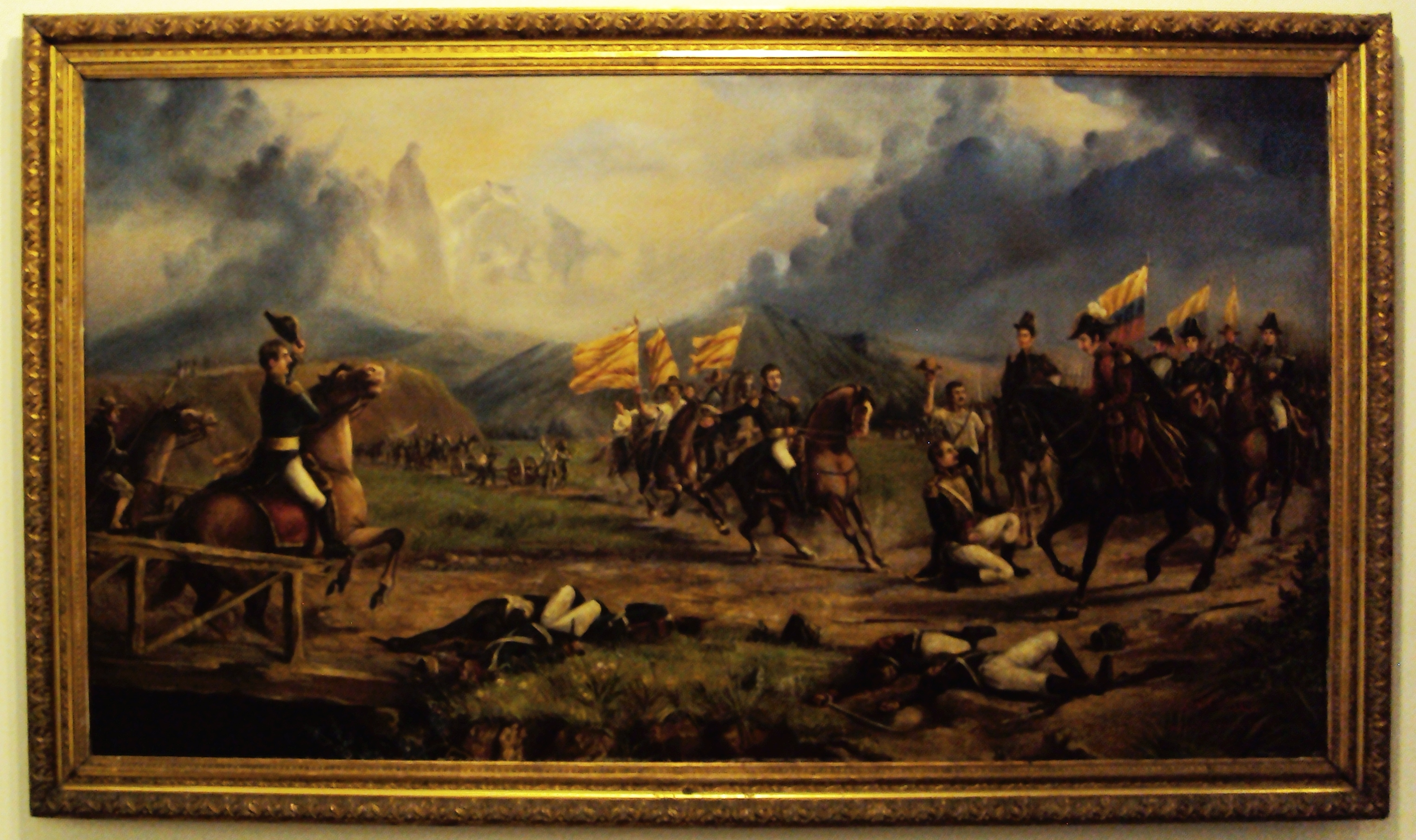 A painting of the Battle of Boyacá by J. W. Cañarete